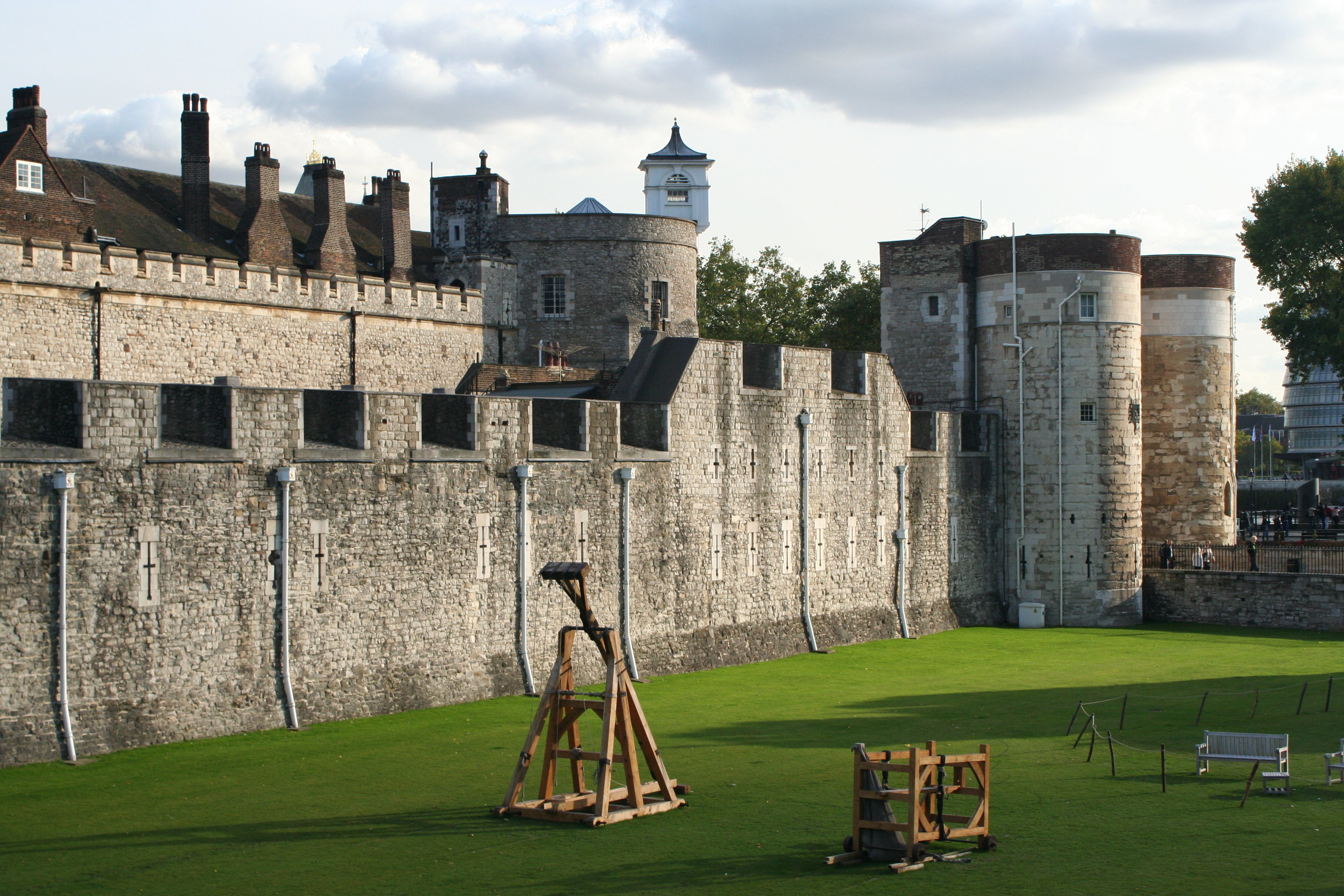 Two full size replica siege engines at the Tower of London, the springald (or espringal) and the perrier (or pierrière).